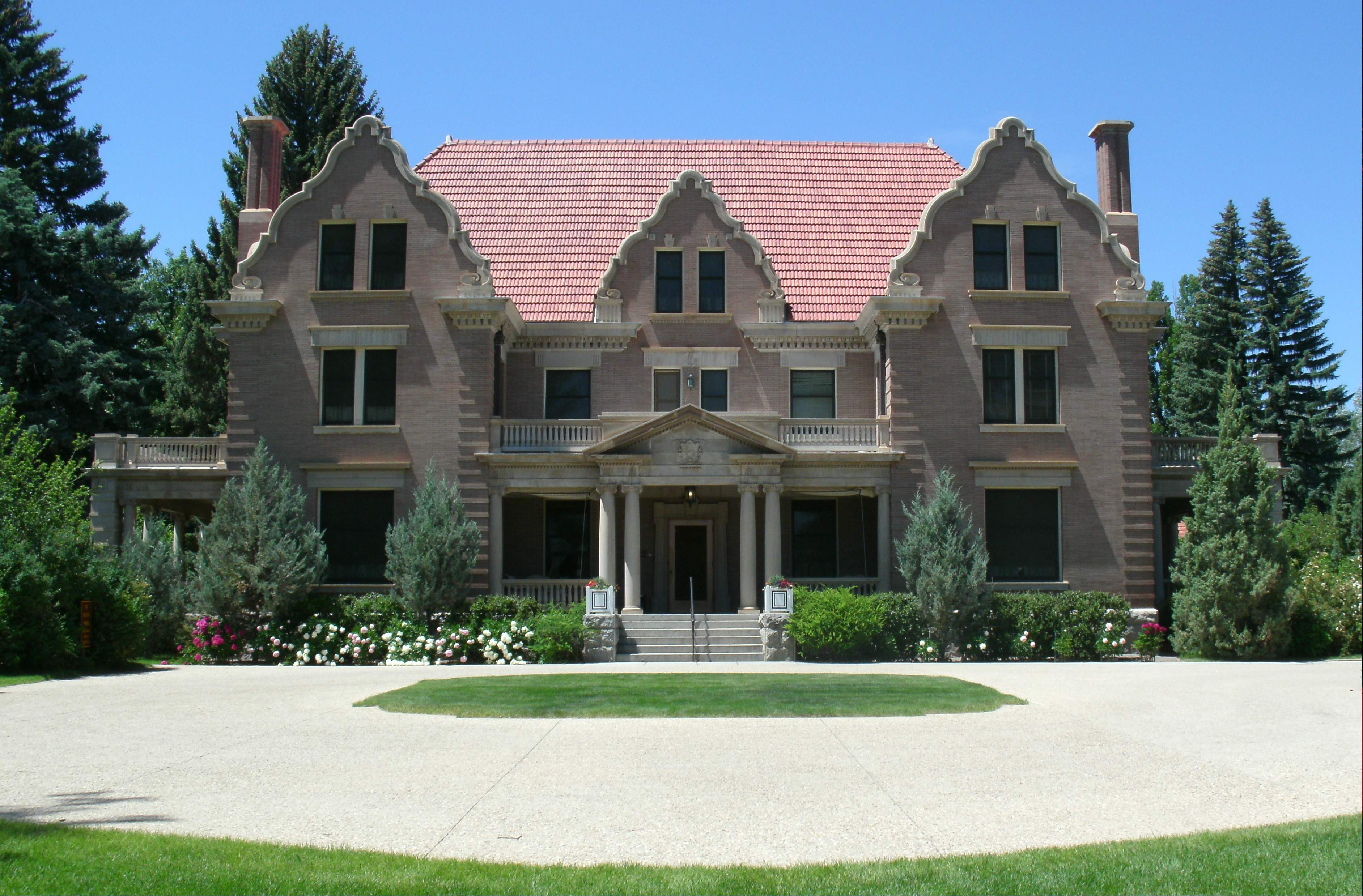 Trail End State Historic Site (Kendrick Mansion) 400 Clarendon Avenue Sheridan, Wyoming 82801 USA